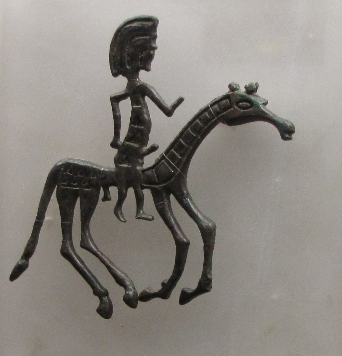 Treli horseman. Bronze beltbuckle with inlays